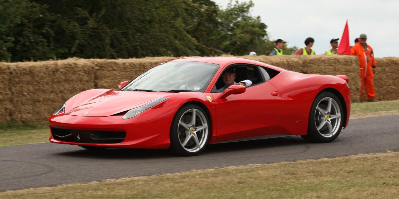 pictures from friday at fos